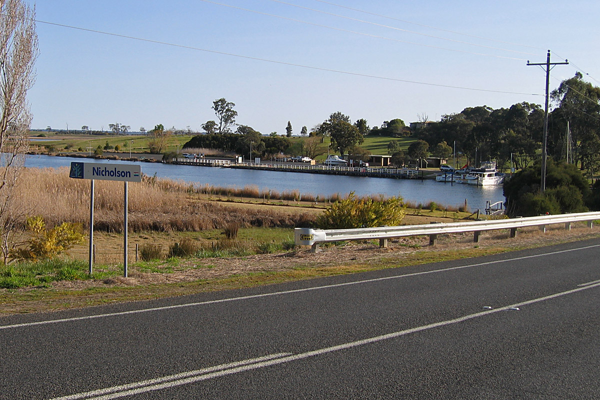 Looking west across the Princes Highway and the Nicholson River near the road bridge, towards the Nicholson boat ramp, Nicholson, Victoria, Australia.